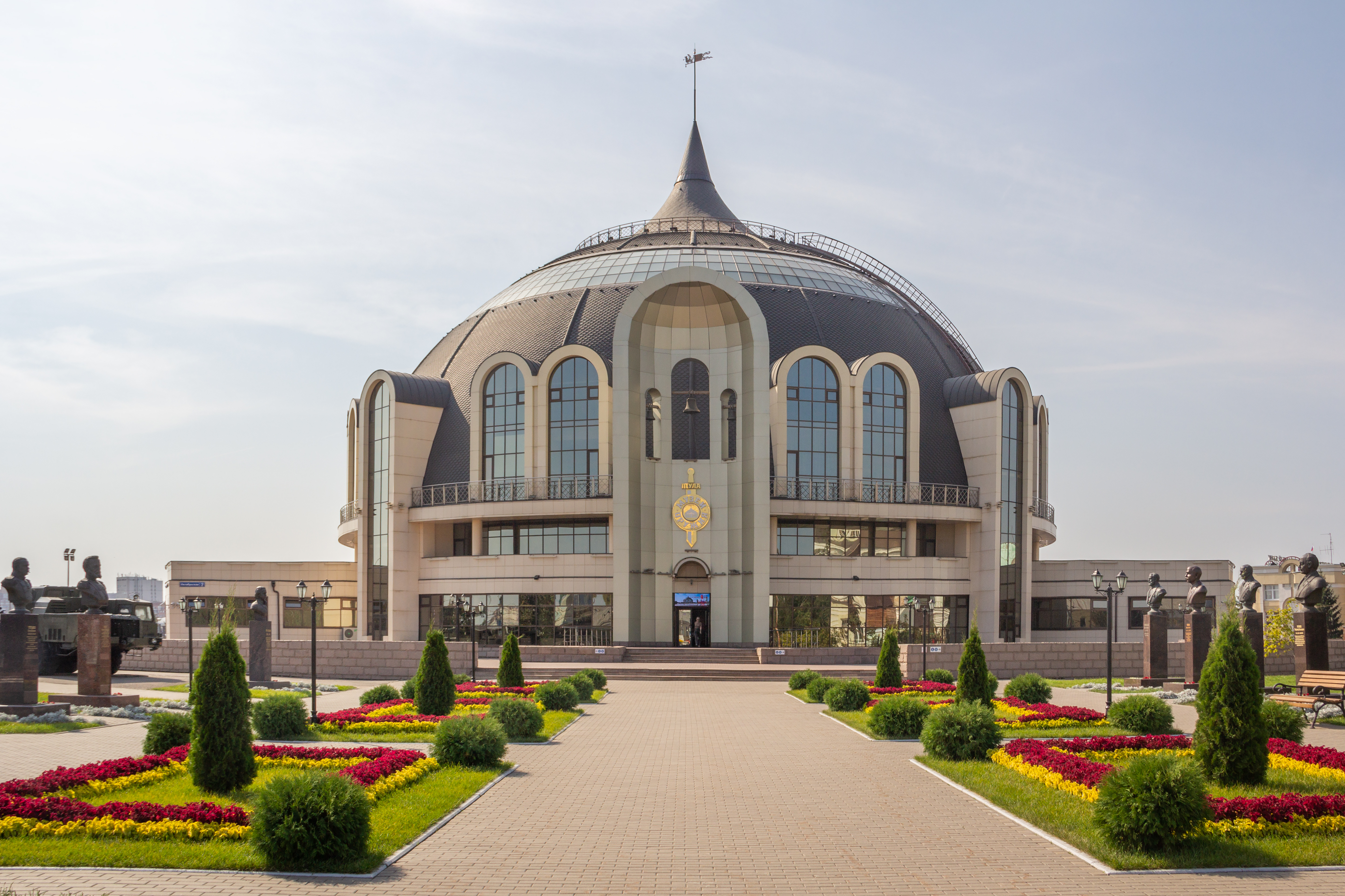 Tula State Museum of Weapons